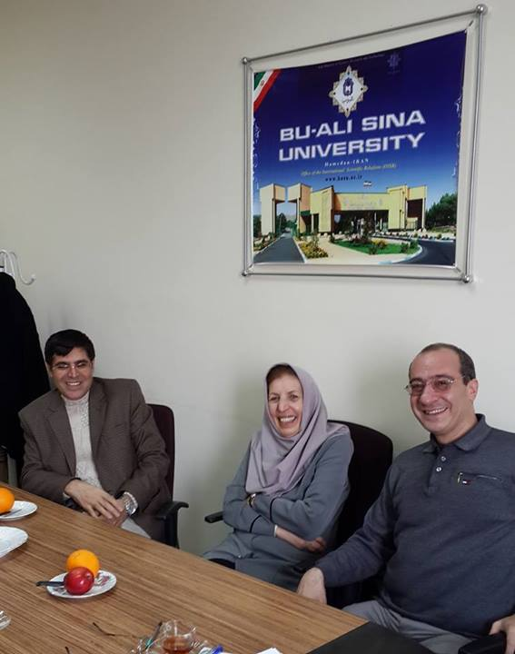 from right to left: Omid Tabibzadeh, Zhaleh Amuzegar and Ali Mohammadi